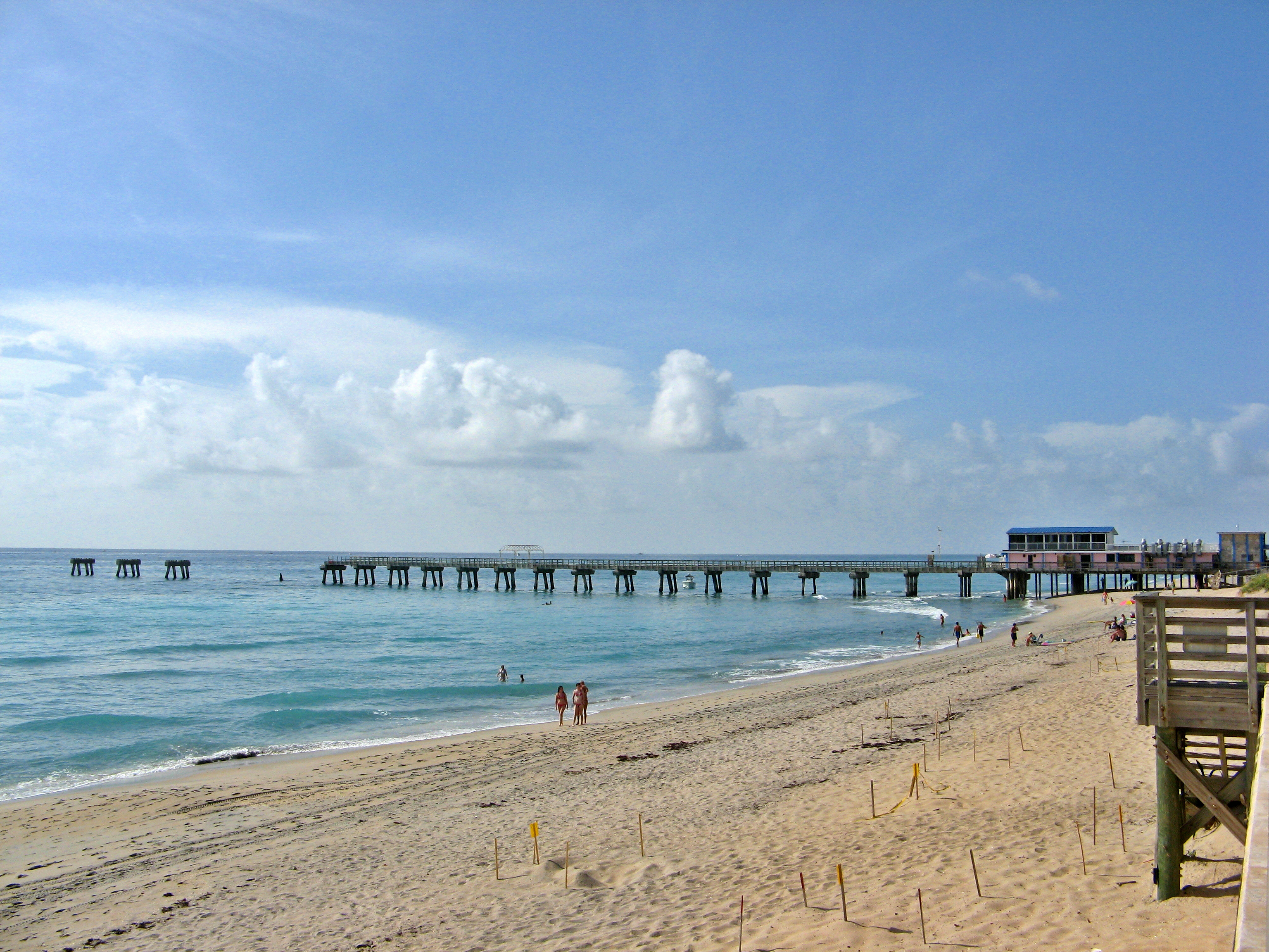 Lake Worth Pier in Palm Beach County, Florida.